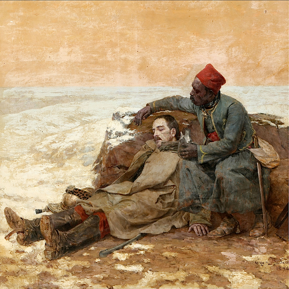 Officier de dragons secouru par un tirailleur algérien, oil on canevas, signed & dated 1894. Dim. : 88 x 90 cm.